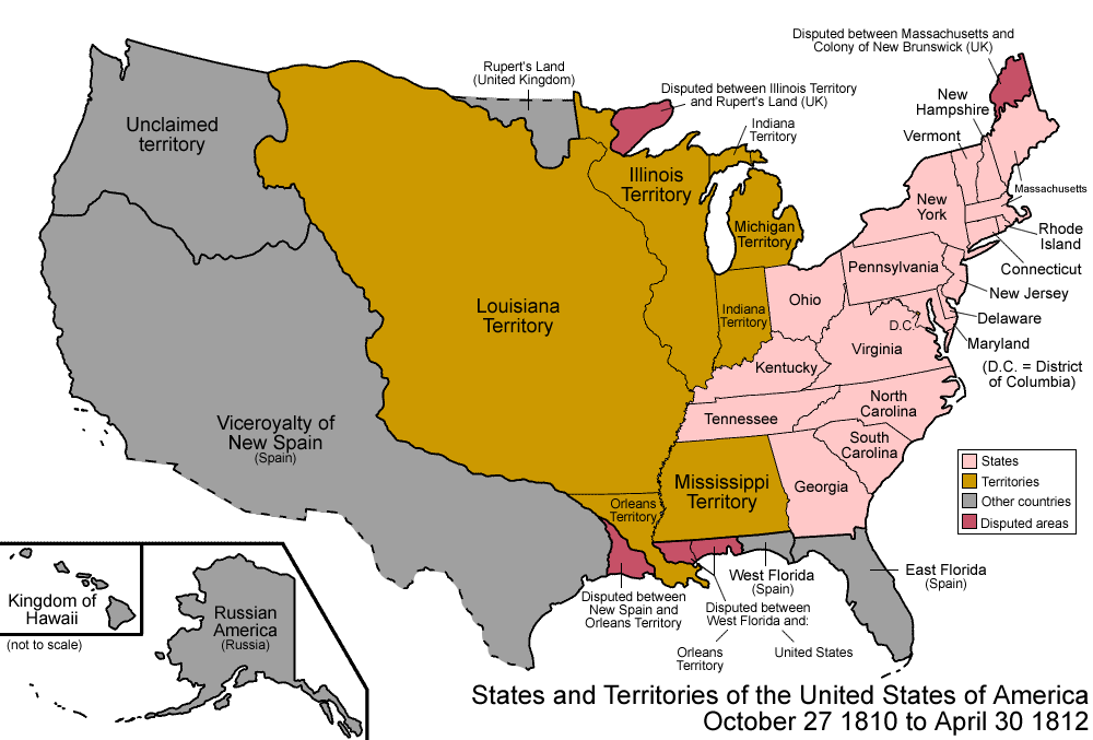 Map of the states and territories of the United States as it was from 1810 to April 1812. On October 27 1810, the United States annexed a further portion of West Florida. On April 30 1812, most of Orleans Territory was admitted as the state of Louisiana.